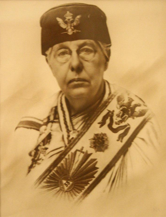 Photograph by unknown photographer of Annie Besant, that has been hanging in our Masonic hall for many years, rephotographed by myself (Fuzzypeg).